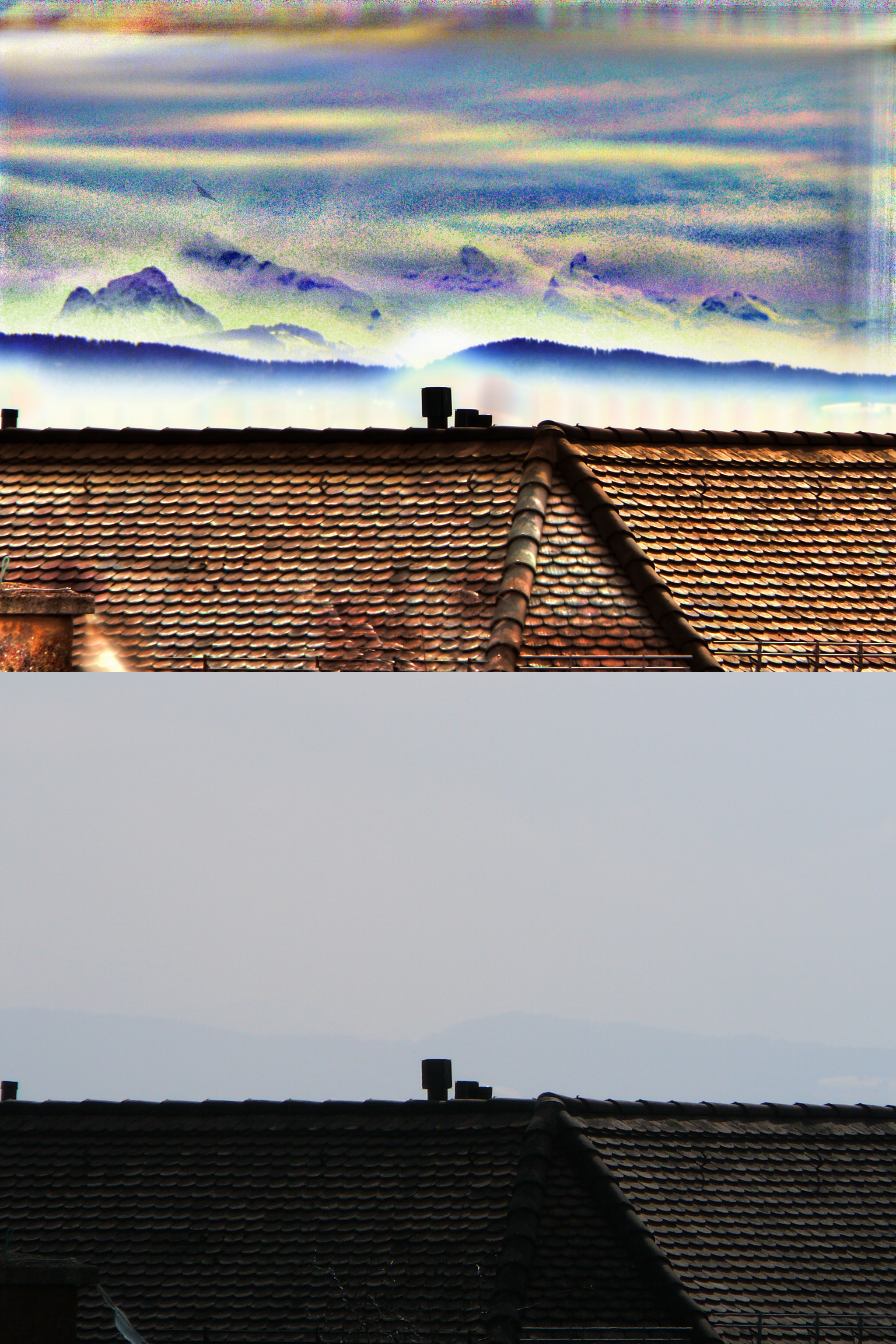 Demonstration of capabilities of Twibright Registrator. On a hazy day in Zurich, horizon was photographed 1004 times and registered with Twbright Registrator, a free software for image registration and related tasks. The output was then processed with a special algorithm shipped with Twibright Registrator, which tries to calibrate white and black points locally, adapting to varying degrees of haze throughout the picture. In the result, the distant Alps can be seen, although they are tens of kilometers into the haze.